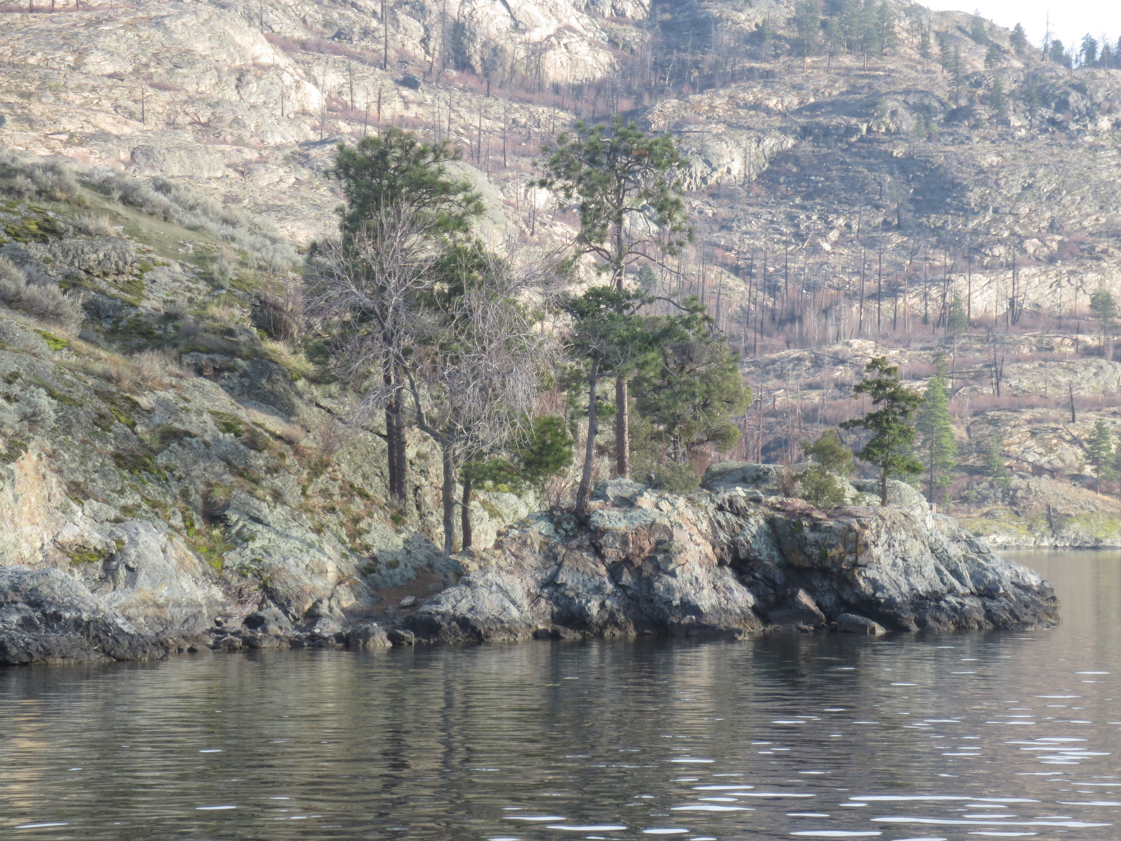 Southeastern Extent of Rattlesnake Island looking north, Okanagan Mountain Park fire damage visible in background